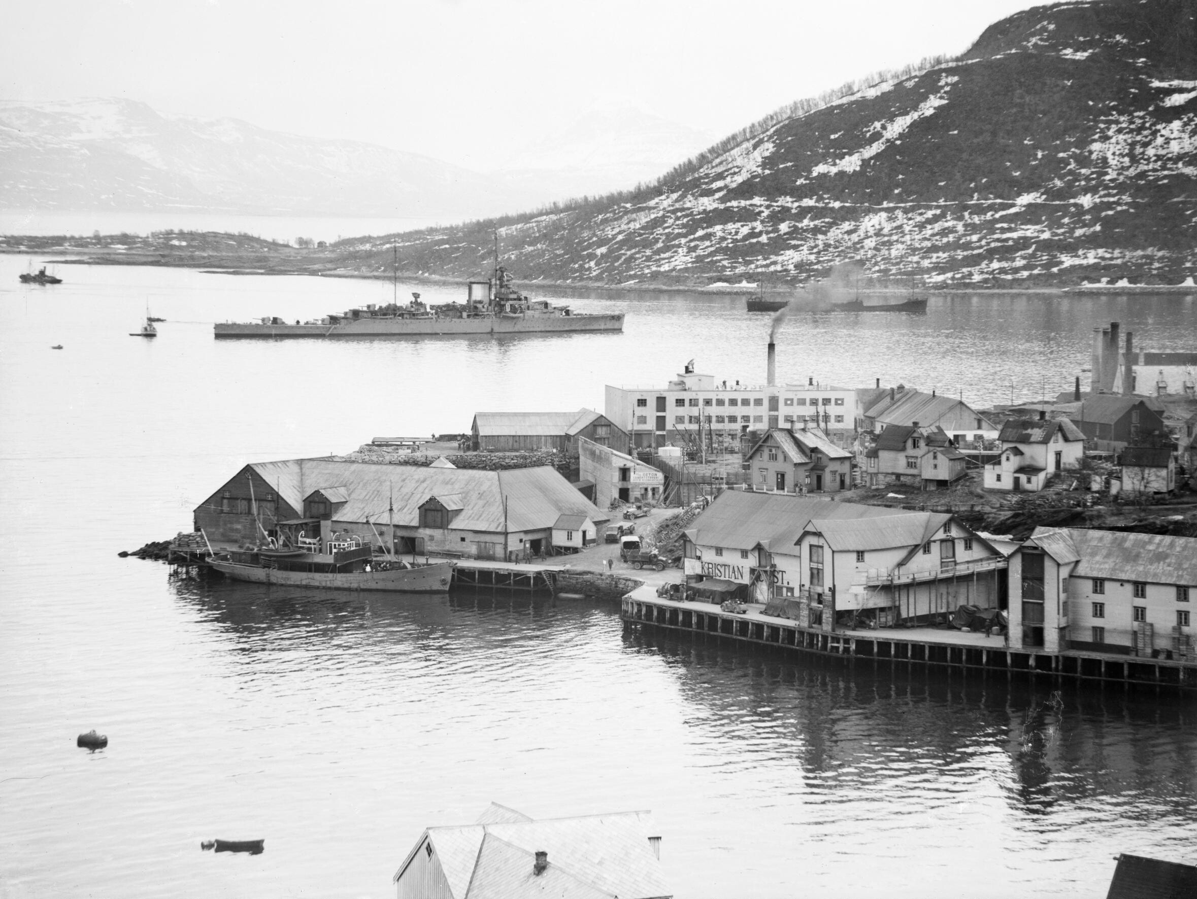 The Royal Navy during the Second World War View of one of the Norwegian Expeditionary Force occupied towns in Norway showing Navy craft in the Fjord.